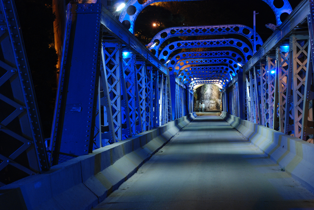 Nocturn view of the Demisthóclides Baptista Bridge of Iron, in Cachoeiro de Itapemirim, Espírito Santo, Brazil.